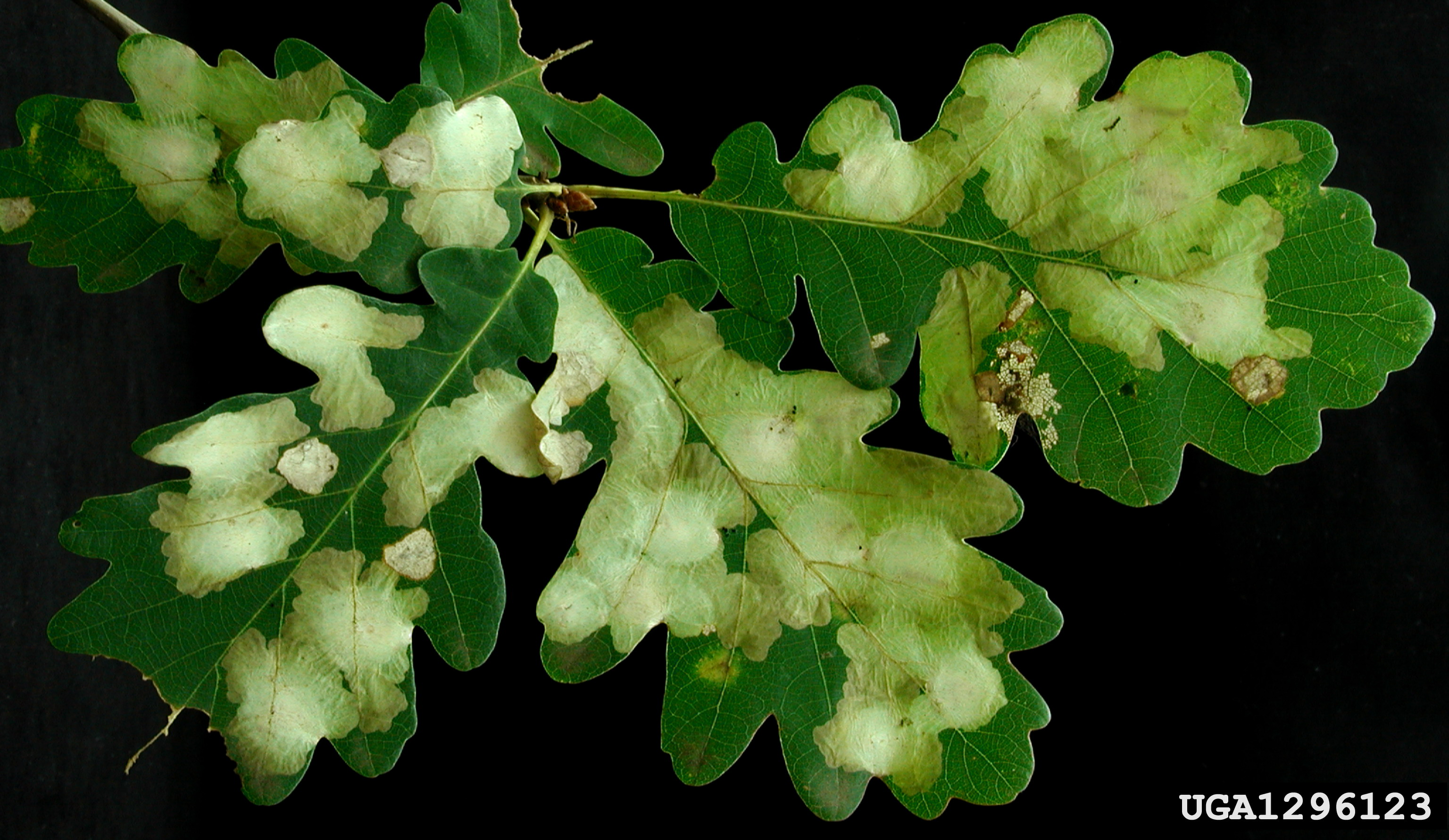 Tischeria ekebladella damage